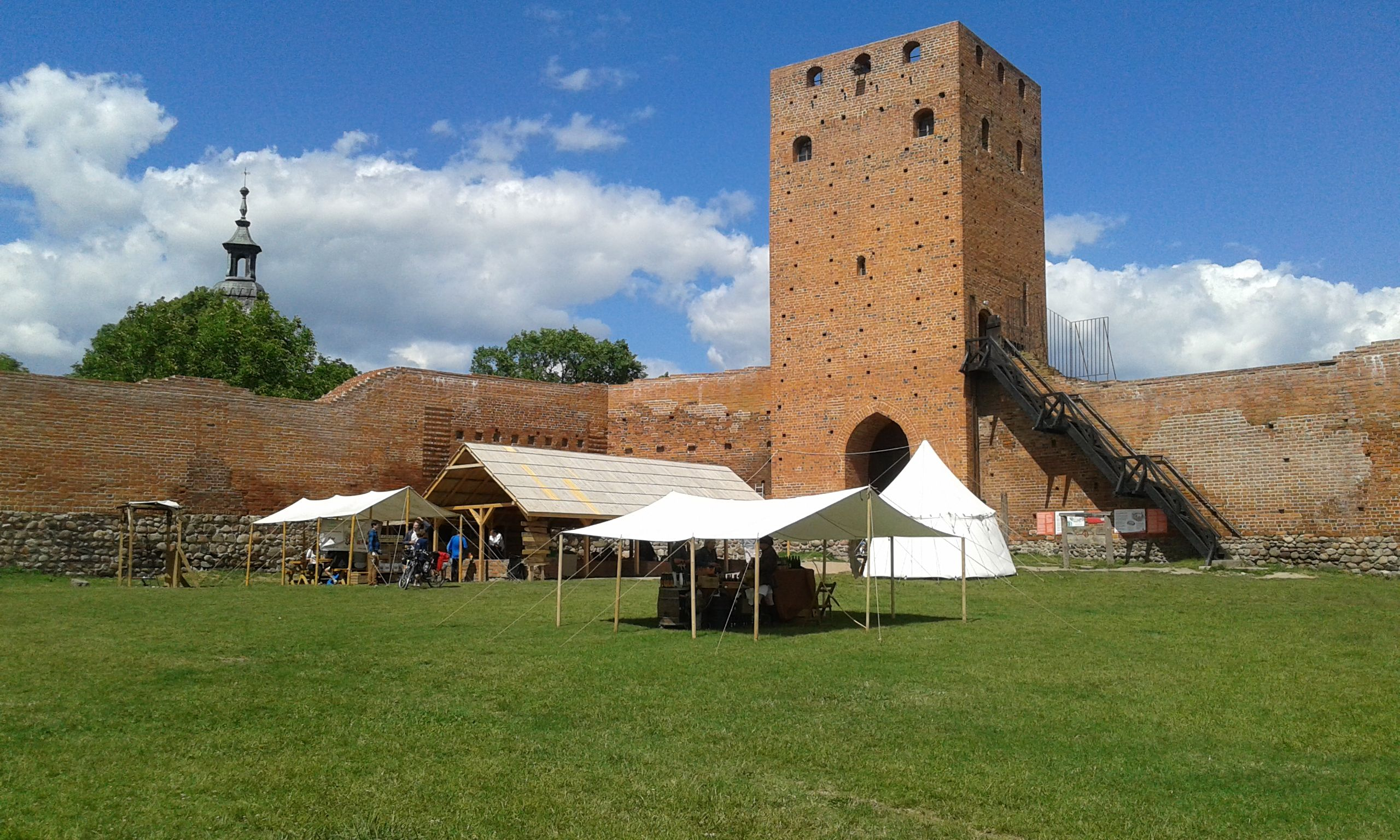 The Castle of the Masovian Dukes located in Czersk